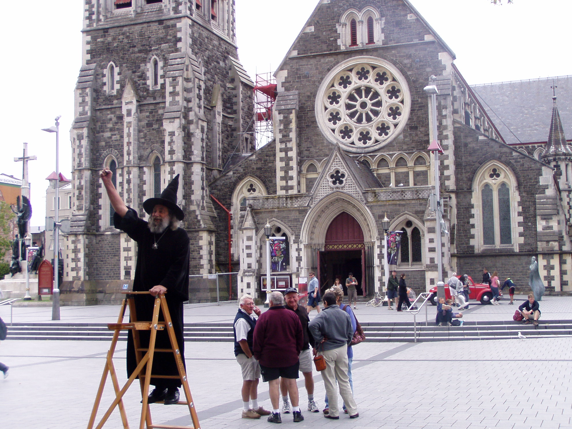 The Wizard of Christchurch, a well-known local personality with decades of history.